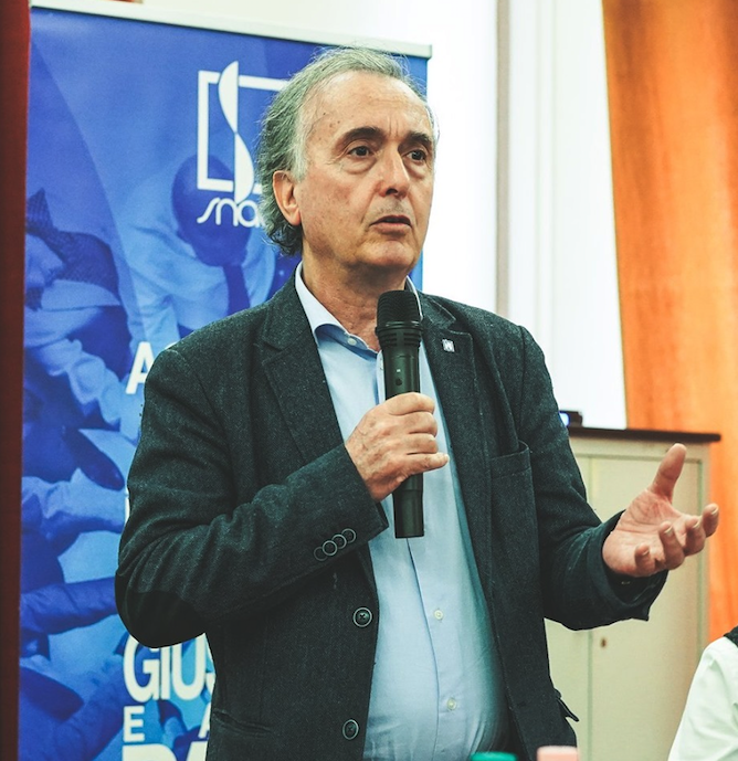 Orazio Ruscica - Segretario Nazionale SNADIR